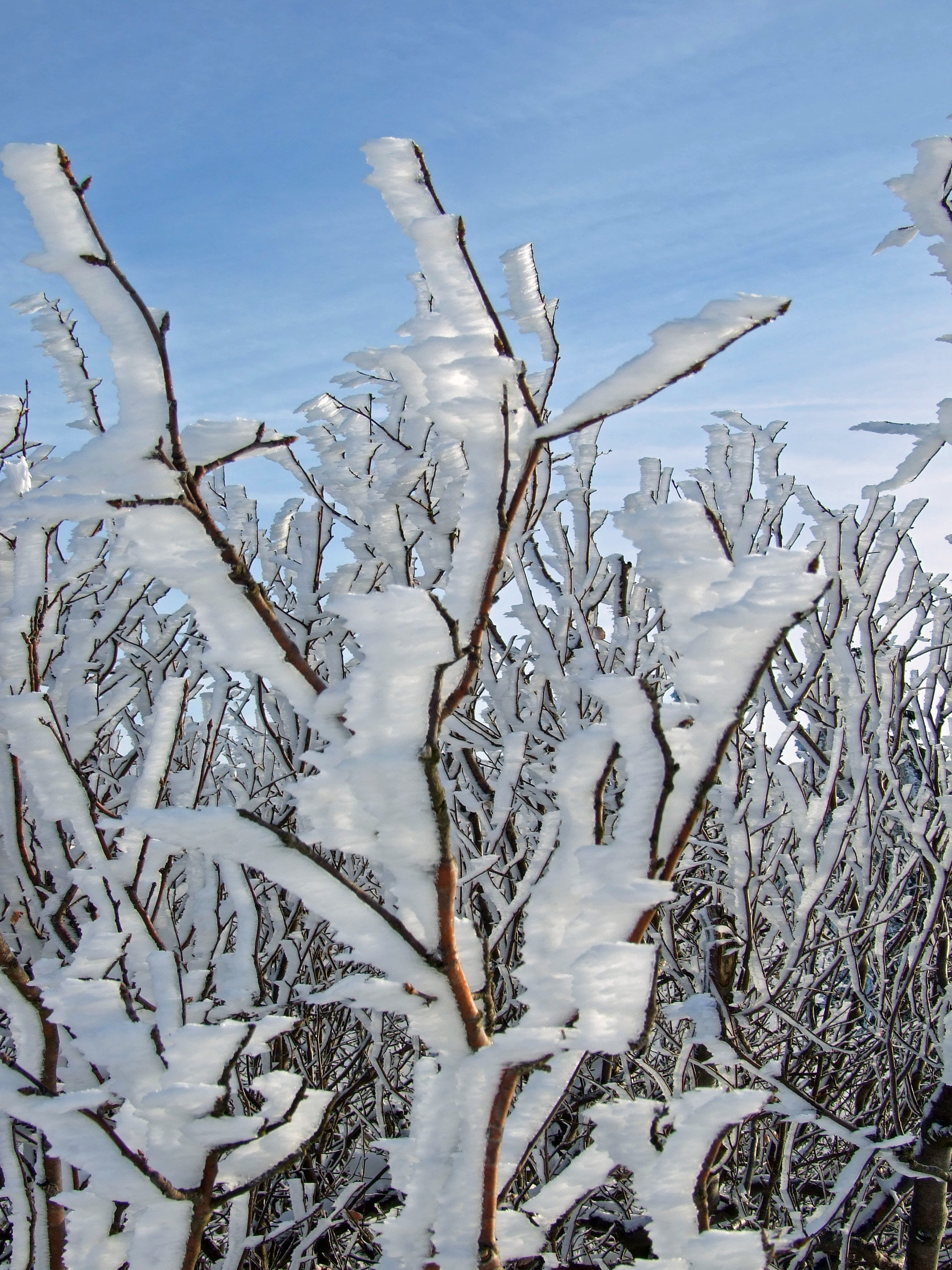 ice-snow bush (detail), "Grosser Feldberg", plateau at winter 2008/9